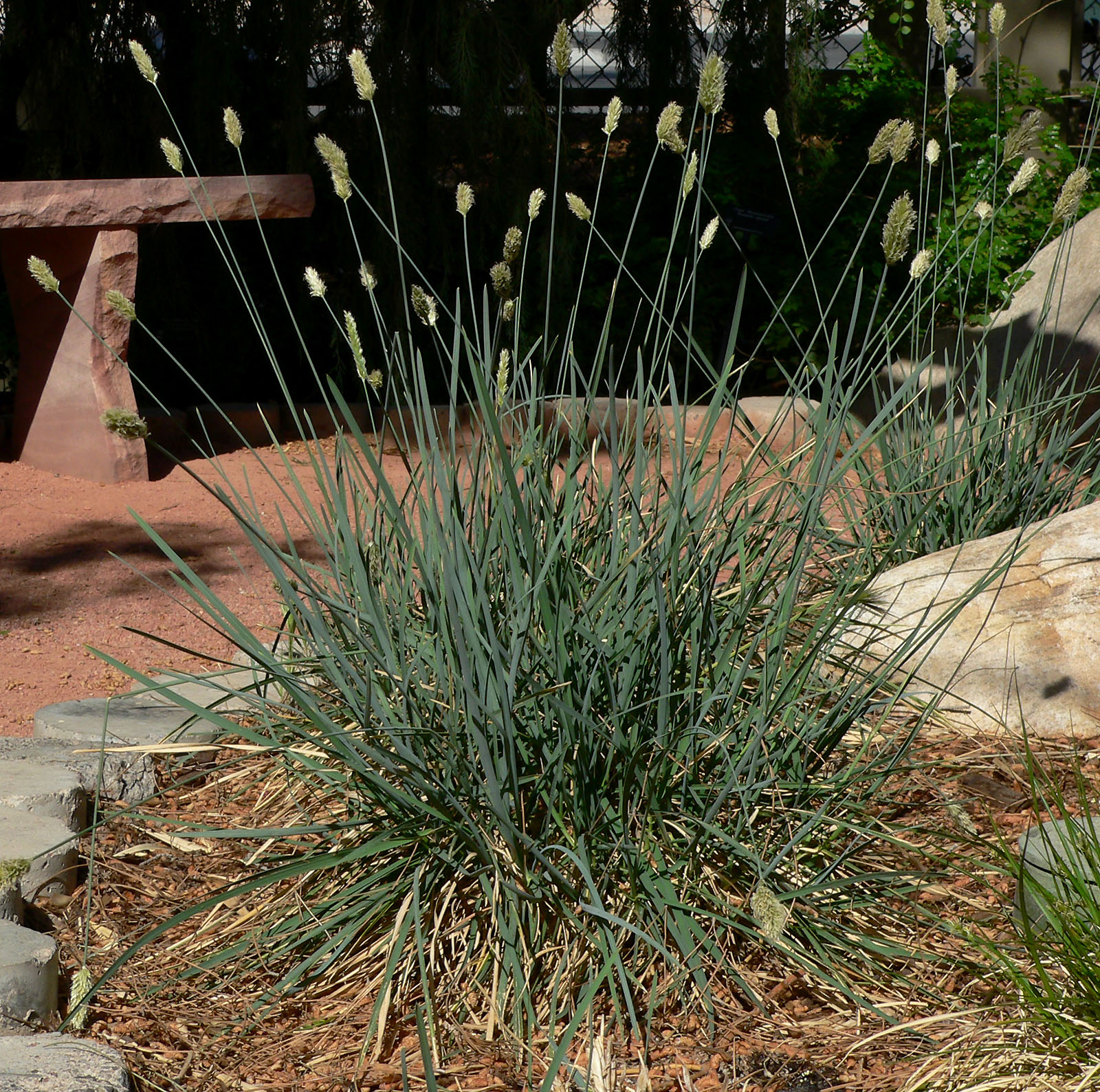 Sesleria caerulea at the Springs Preserve garden, Las Vegas, Nevada